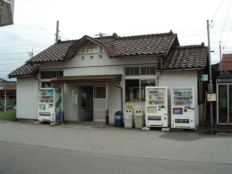 Etchū-Sangō Station on the Toyama Chiho Railway Main Line in Toyama, Toyama Prefecture, Japan